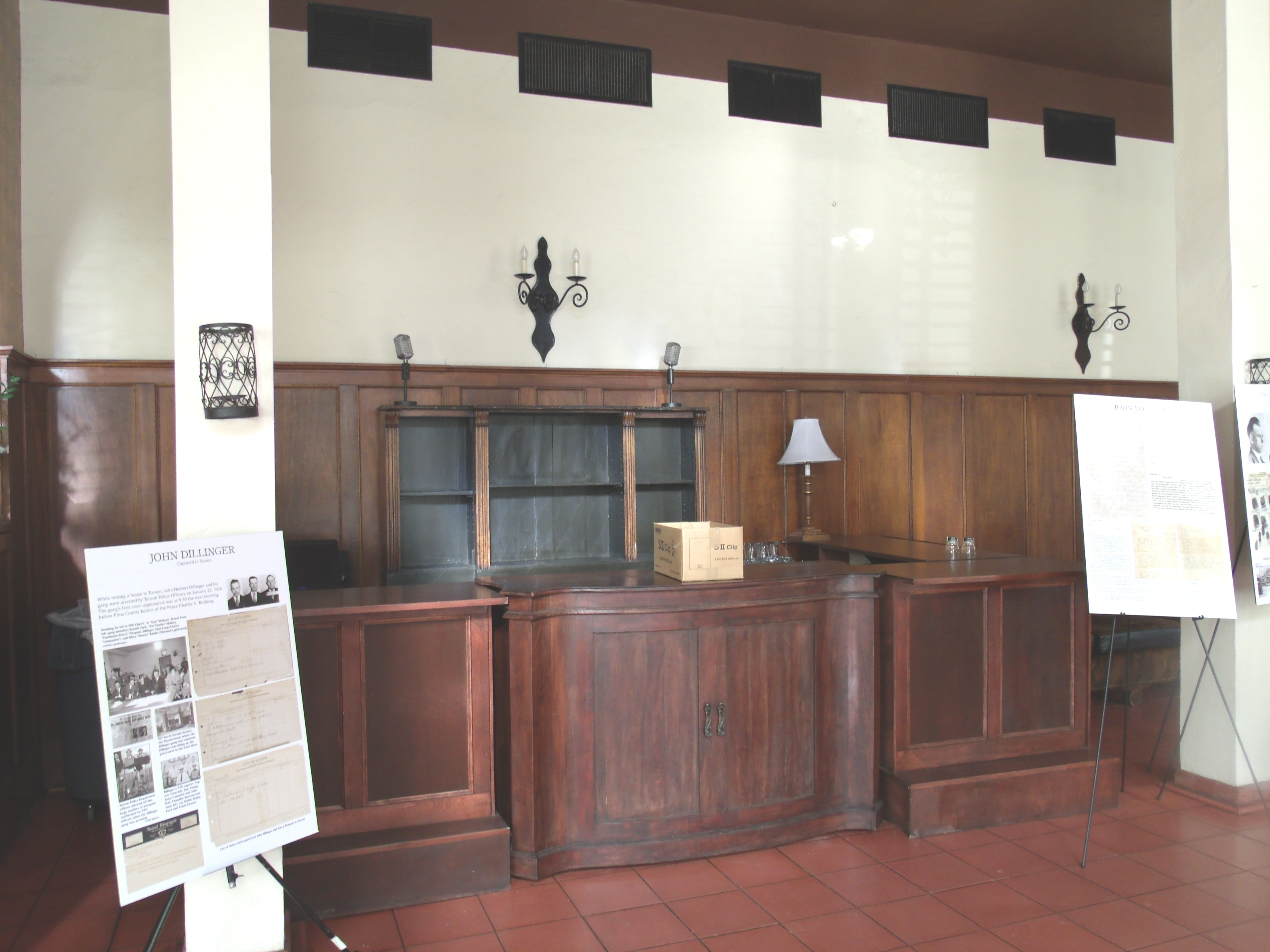 The old lobby of the Hotel Congress which was built in 1919 and is located at 303-311 E. Congress St. On January 22, 1934, a fire started in the basement of the hotel and spread up the elevator to the third floor. This fire, and the subsequent chain of events, led to the capture of one of the country’s most notorious criminals John Dillinger. It was listed in the National Register of Historic Places in 2003, ref.: #03000906.